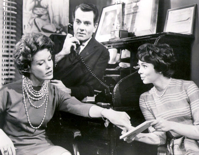 Publicity photo from the television program From These Roots. Pictured from left: Ann Flood, Robert Mandan and Sarah Hardy.